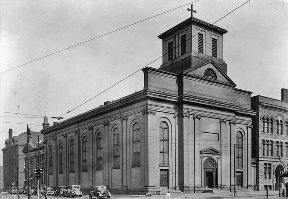 Saints Peter and Paul Church — Detroit, Michigan. Historic American Buildings Survey—HABS image (1981).